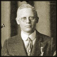 Gunnar Gunnarsson Helland, detail from a picture of members of the "Hardanger Violinist Forbundet af Amerika", Eau Claire, USA.